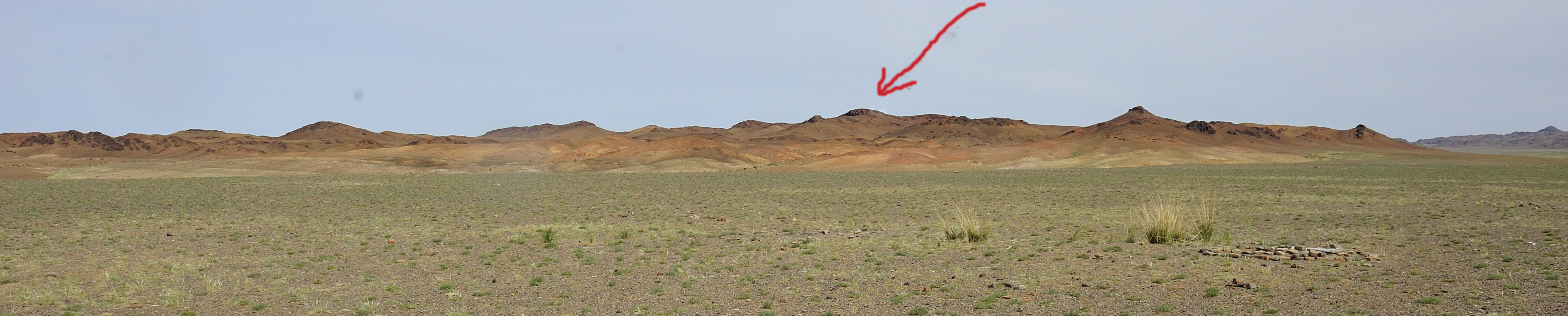 Baruun ilgen (West visible) hills of Inil mountain has Ancient Chinese inscription